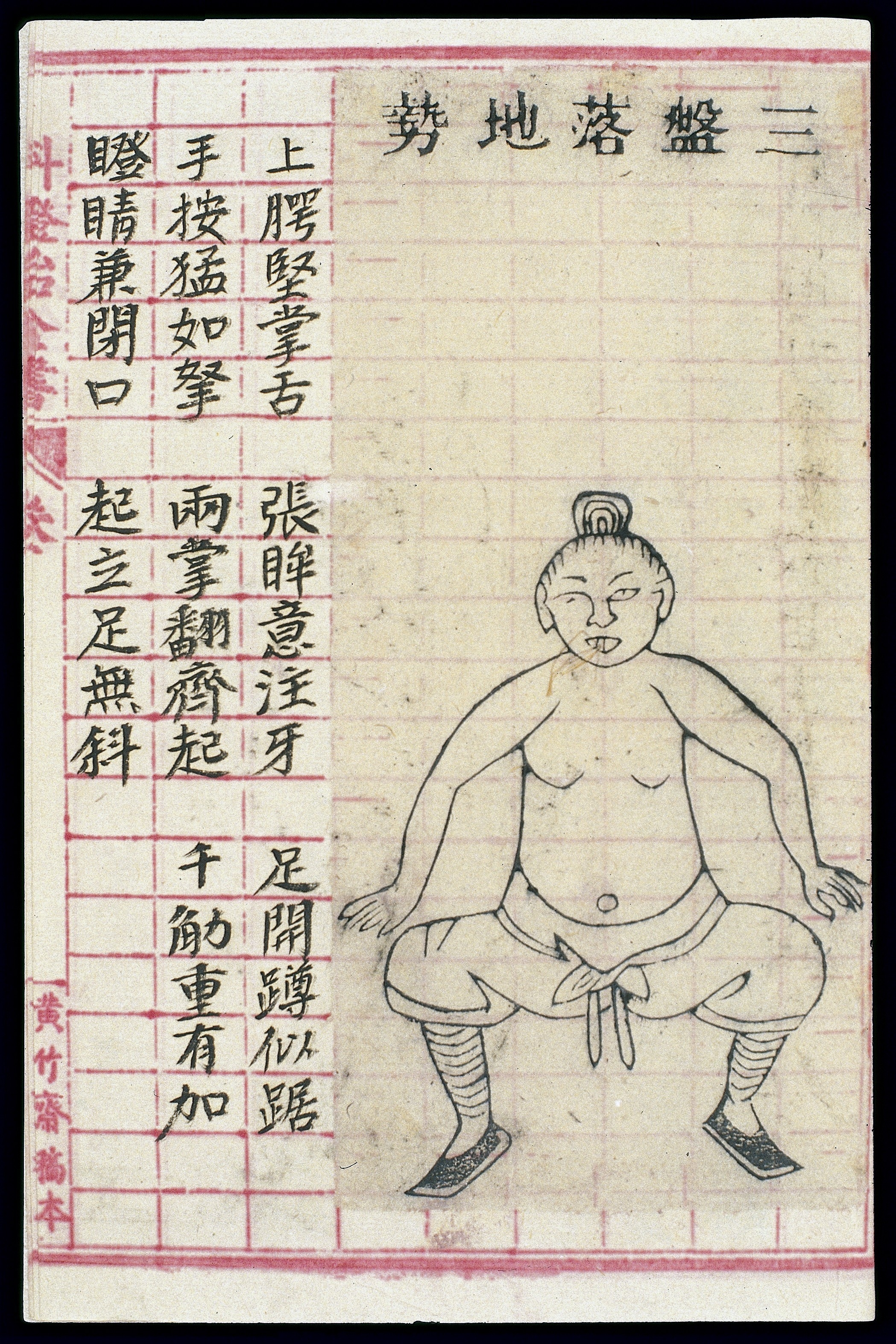 Illustration of martial arts form fromYijin jing(Classic of Transforming the Sinews), woodblock print pasted into MS. Woodcut pasted into MS